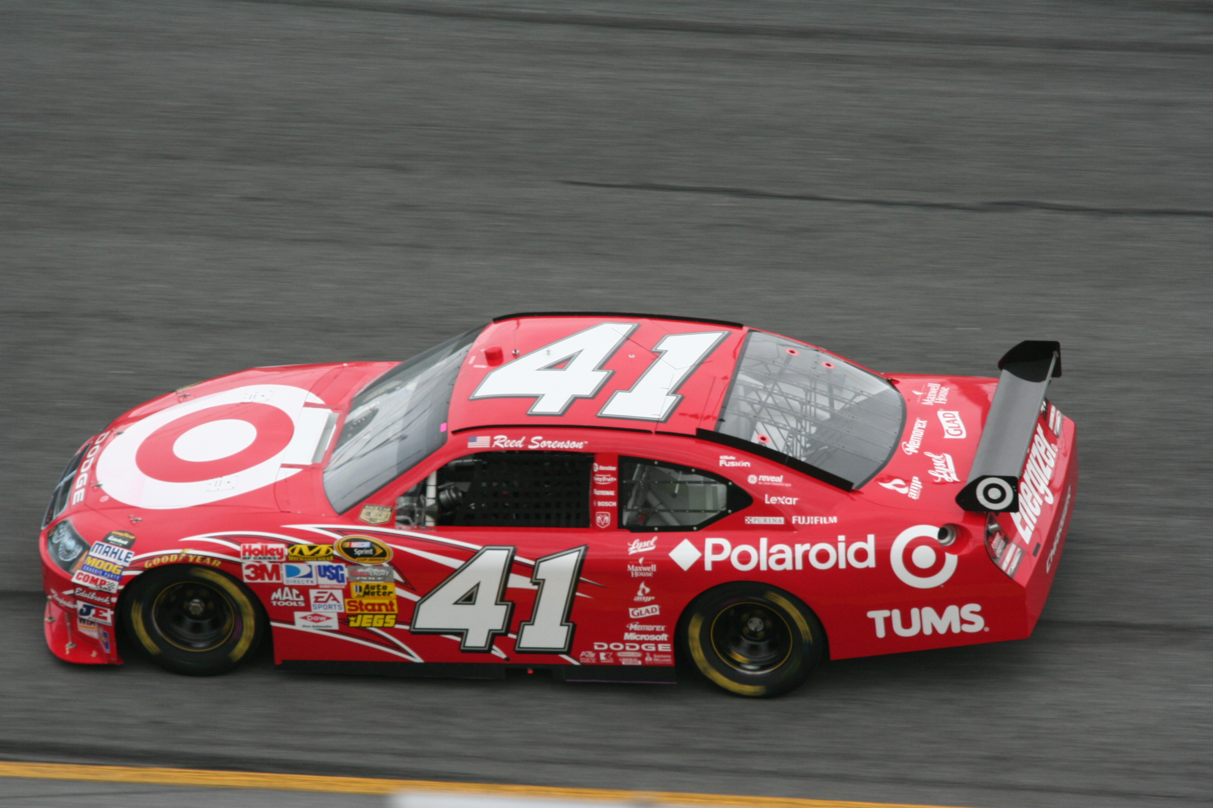 Shot by The Daredevil at Daytona during Speedweeks 2008Reed Sorenson Target Dodge Charger